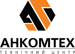 Ankomtech Logo UKR (Royal)